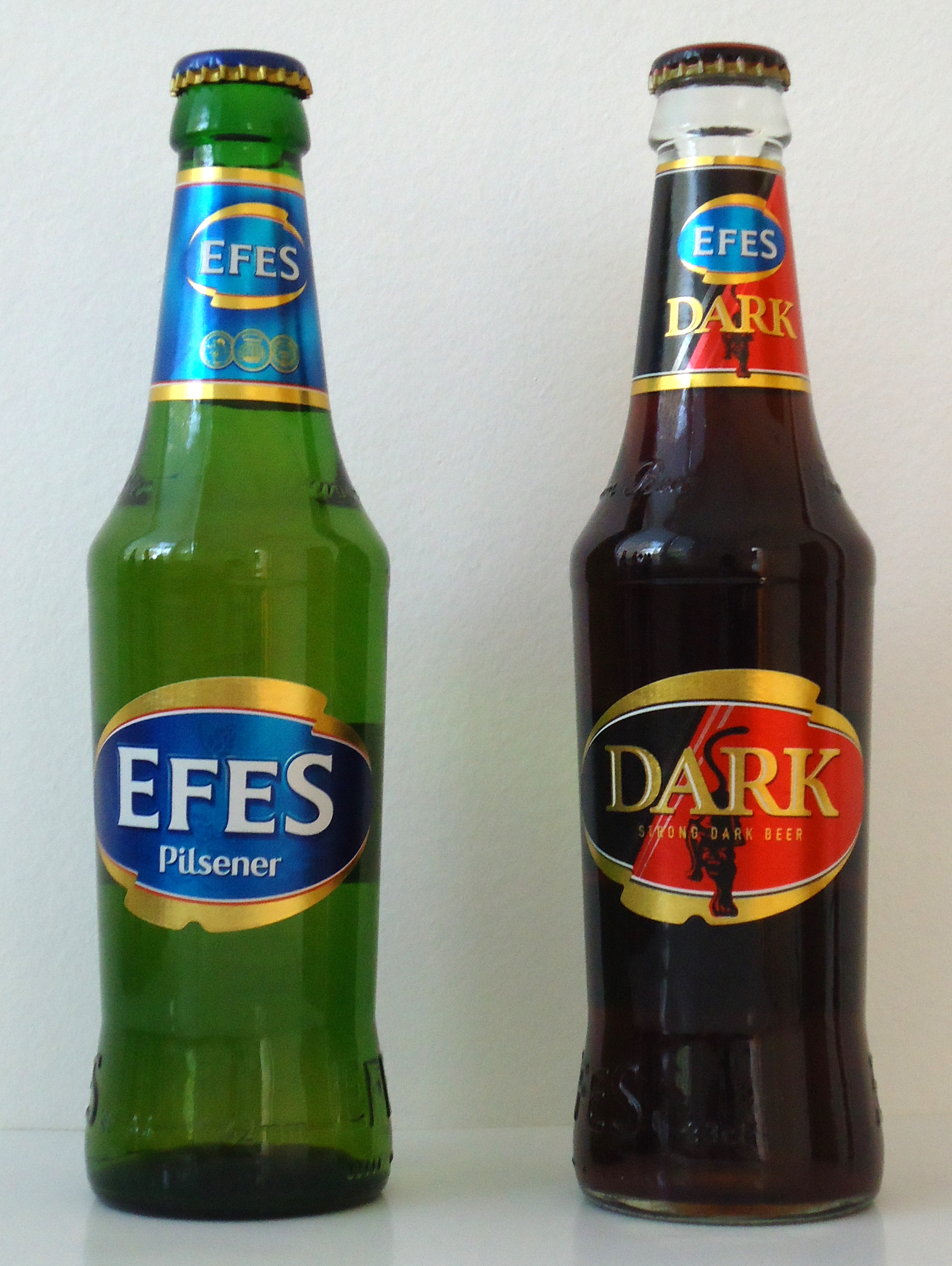 Efes beers